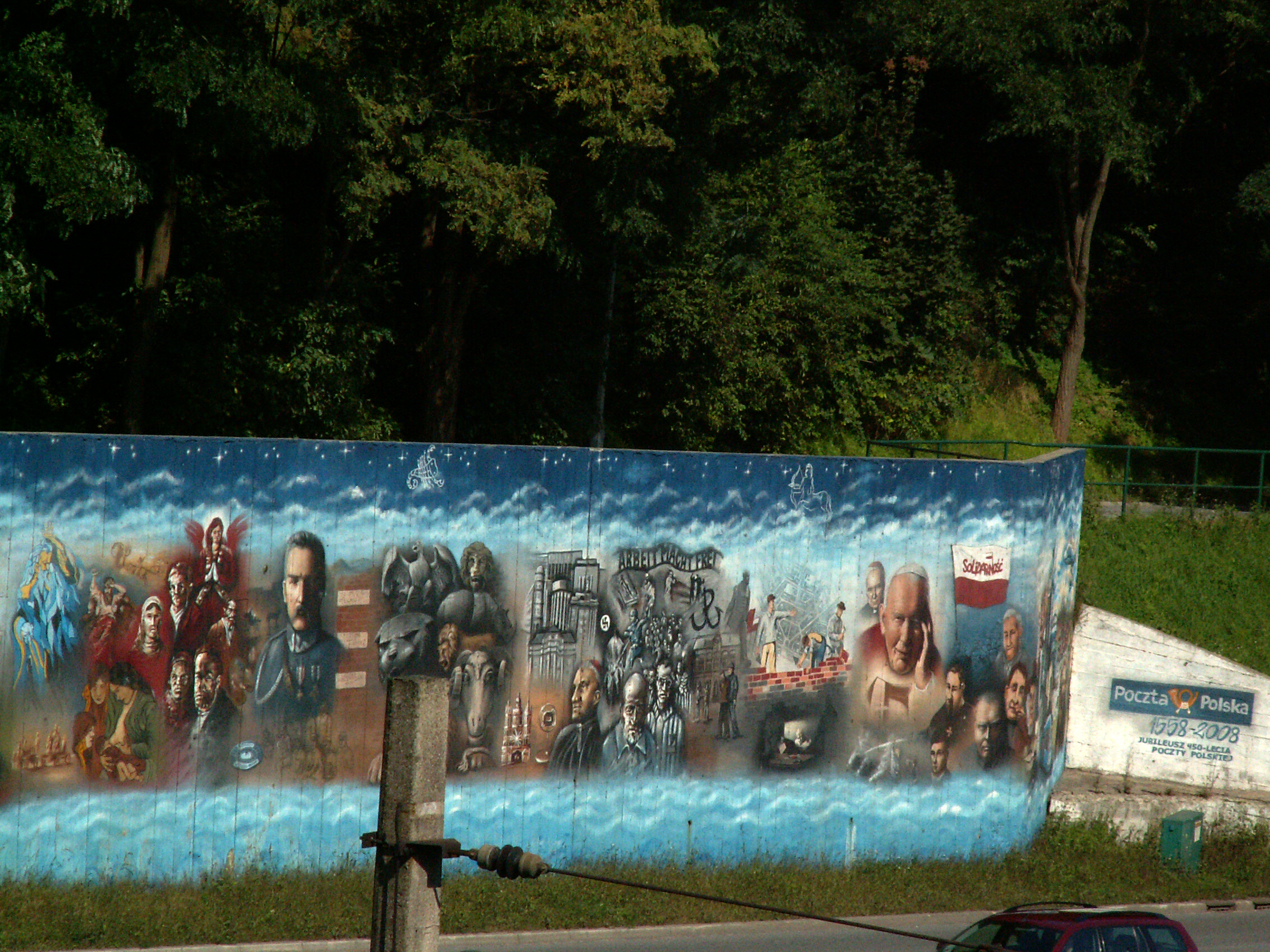 Mural Silva Rerum1,Powstancow Slaskich street,Podgorze,Krakow,Poland